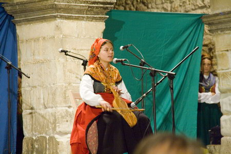 A woman play the rebec in Santillana del Mar (Cantabria, Spain)